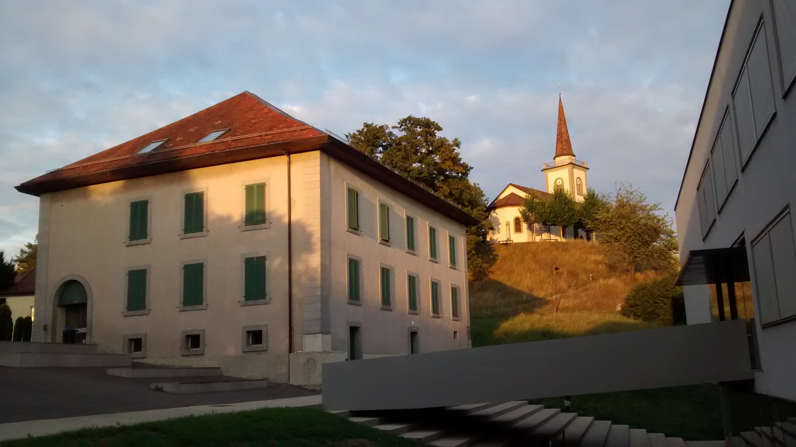 Bussigny-près-Lausanne Church